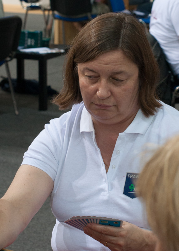 Benedicte Cronier of France